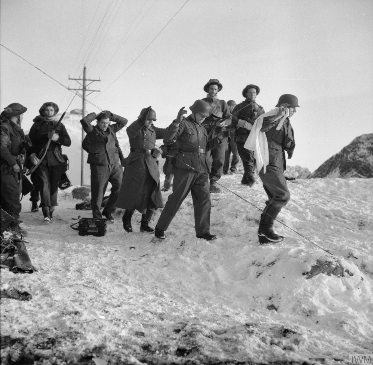 RAID ON VAAGSO, 27 DECEMBER 1941. British commandos with captured German troops. (Operation Archery)